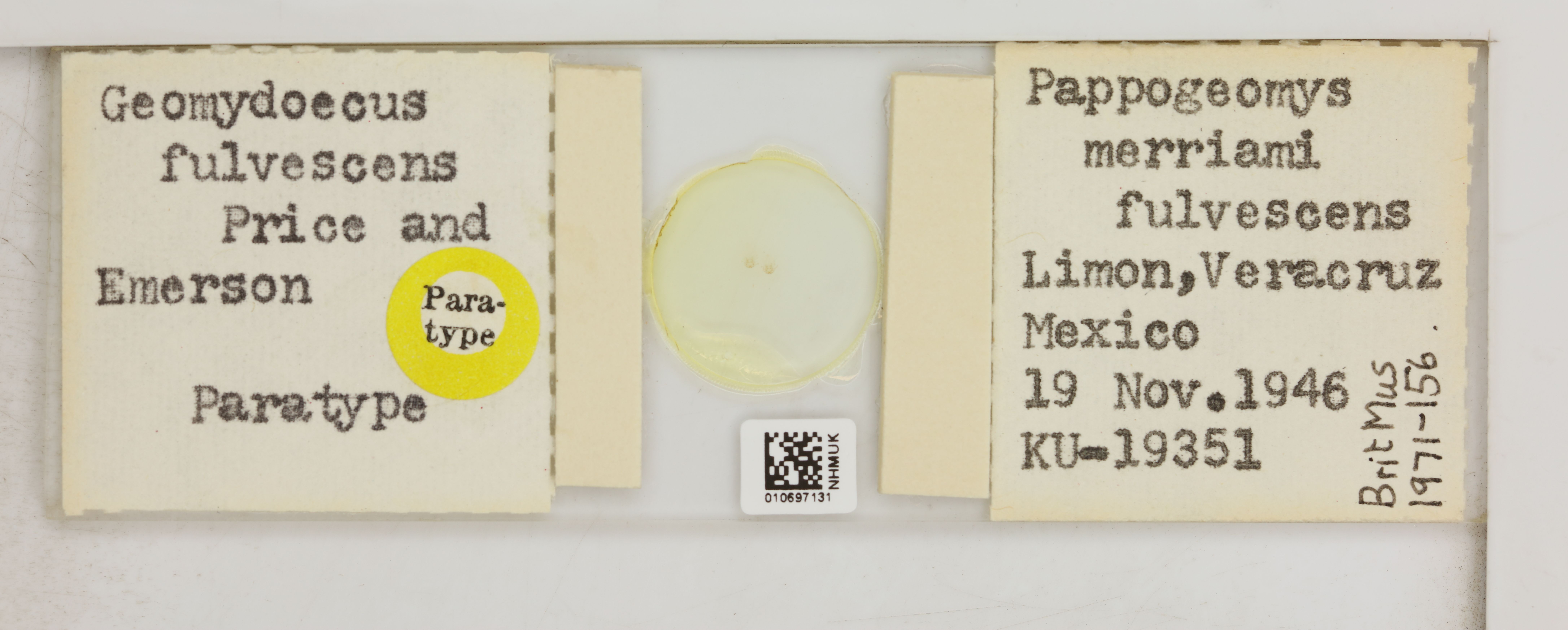 Paratype of Geomydoecus fulvescens in the Natural History Museum, London